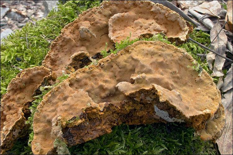 Phylloporia ribis (Schumach.) Ryvarden Image location: Bovec basin, East Julian Alps, Posočje, Slovenia Code: Bot_590/2012_DSC2418 Habitat: Light broad-leaf forest intermixed with unmaintained grassy meadows, flat terrain, old calcareous river deposits, partly shady, partly protected from direct rain by tree canopies, average precipitations ~ 3.000 mm/year, average temperature 8-10 deg C, elevation 365 m (1.200 feet), alpine phytogeographical region. Substratum: Euonymus europaea Place: Soča valley between Kobarid and Žaga, right Soča bank near Srpenica village, East Julian Alps, Posočje, Slovenia EC Comments: Growing solitary at the base of a middle size Euonymus europaea bush situated under a large Fagus sylvatica, alive but not in a good health condition. Pileus diameter up to 15 cm x 10 cm (6 inch x 4 inch) and 3 cm (1.2 inch) thick, hard, difficult to cut through, corky. Caps’ upper side dark tobacco color (oac638), almost totally covered by mosses. Context somewhat lighter than cap (oac644). Pore layer concolorous with context, pore surface ocher-brown (oac777). SP whitish-creme. Spores smooth, small, abundant. Dimensions 3.4 (SD = 0.2) x 2.7 (SD = 0.2) micr., Q = 1.27 (SD = 0.09), n = 30. Motic B2-211A, magnification 1.000 x, oil, in water. Ref.: (1) A.Bernicchia, Polyporaceae s.l., Fungi Europaei, Vol. 10., Edizioni Candusso (2005), p 440. (2) G.J.Krieglsteiner (Hrsg.), Die Grosspilze Bade-Württembergs, Band 1, Ulmer (2000), p 462. (3) Ryvarden, L.; Gilbertson, R.L. 1994, Syn. Fung. 7. p535 (after MycoBank) (4) Personal communication with Mr. Anton Poler. Identification confirmed. Nikon D700 / Nikkor Micro 105mm/f2.8 and Canon G11, 6.1-30mm/f2.8-4.5 Recognized by sight For more information about this, see the observation page at Mushroom Observer.